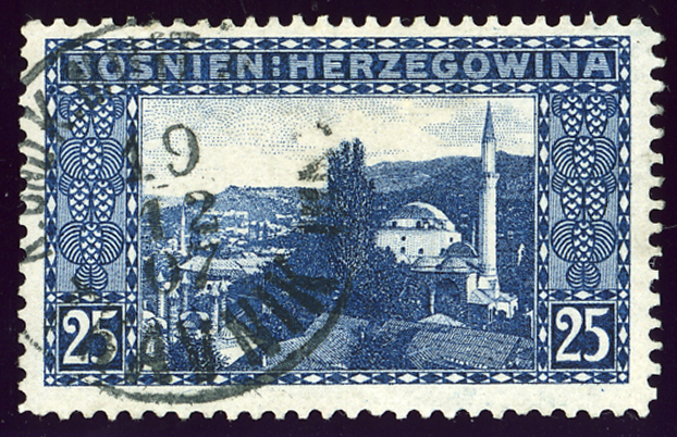 Bosnia 25 heller stamp, Sarajevo, cancelled K.U.K.MILIT.POST VIII TRAVNIK (Bosnia) in 1907.